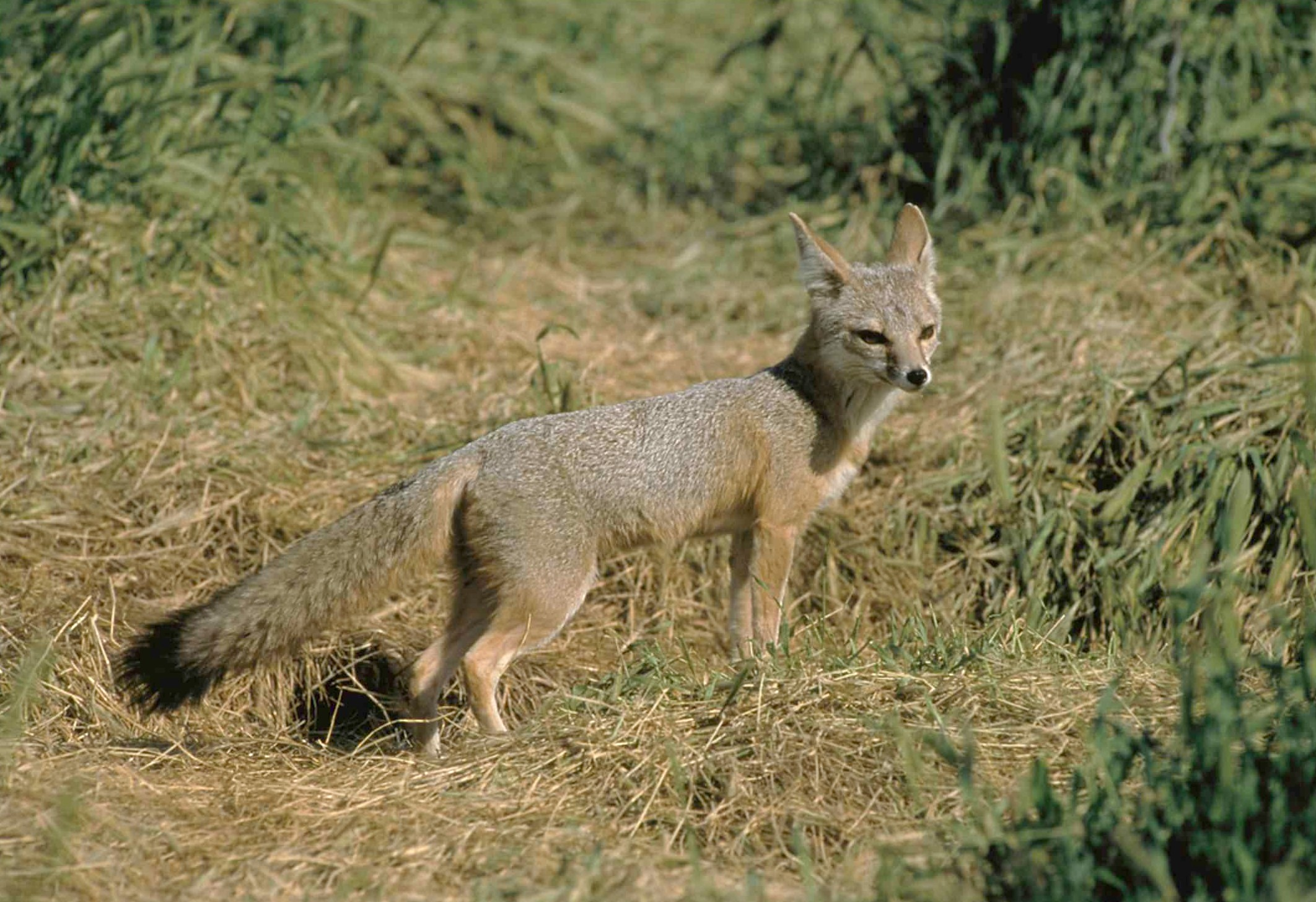 Image title: San Joaquin kit fox male Image from Public domain images website